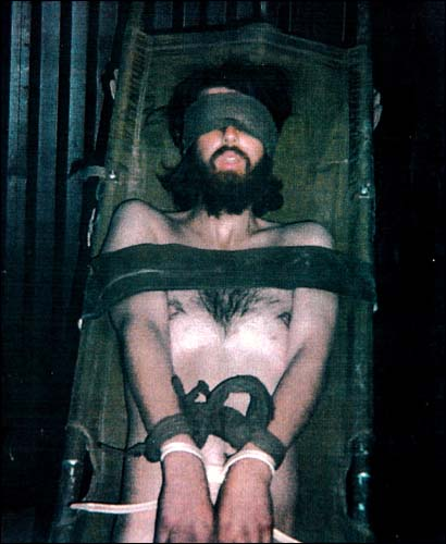 On December 2, 2001 Lindh was transfered to American custody he was given basic first aid and then questioned for a week at Mazari Sharif, before taking him to Camp Rhino on December 7, 2001[1][2] When Lindh arrived at Camp Rhino his clothes were taken off and he was restrained to a stretcher, blindfolded and placed in a metal shipping container. While bound to the stretcher his picture was taken by American military personnel.[3] While at Camp Rhino he was heavily medicated and in severe pain from a bullet in his leg. On at least one occasion he was interrogated while naked. On December 8 and 9th he was interviewed by the FBI.[2] He was held at Camp Rhino until he was transfered to USS Peleliu on December 14, 2001[4]